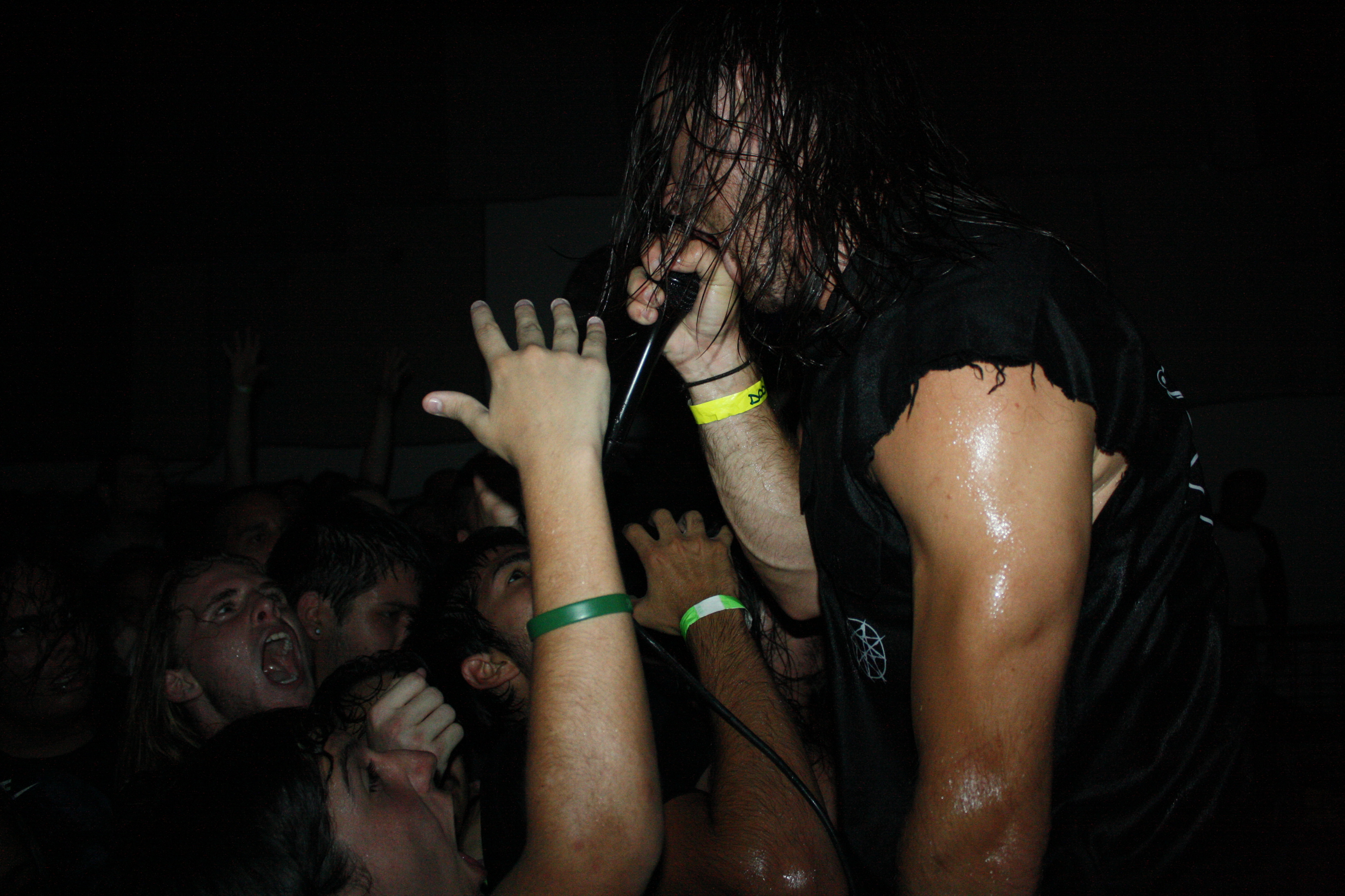 At the Dugout on June 22, 2009 with Carnifex, Molotov Solution, Miss May I, and Conducting From the Grave.